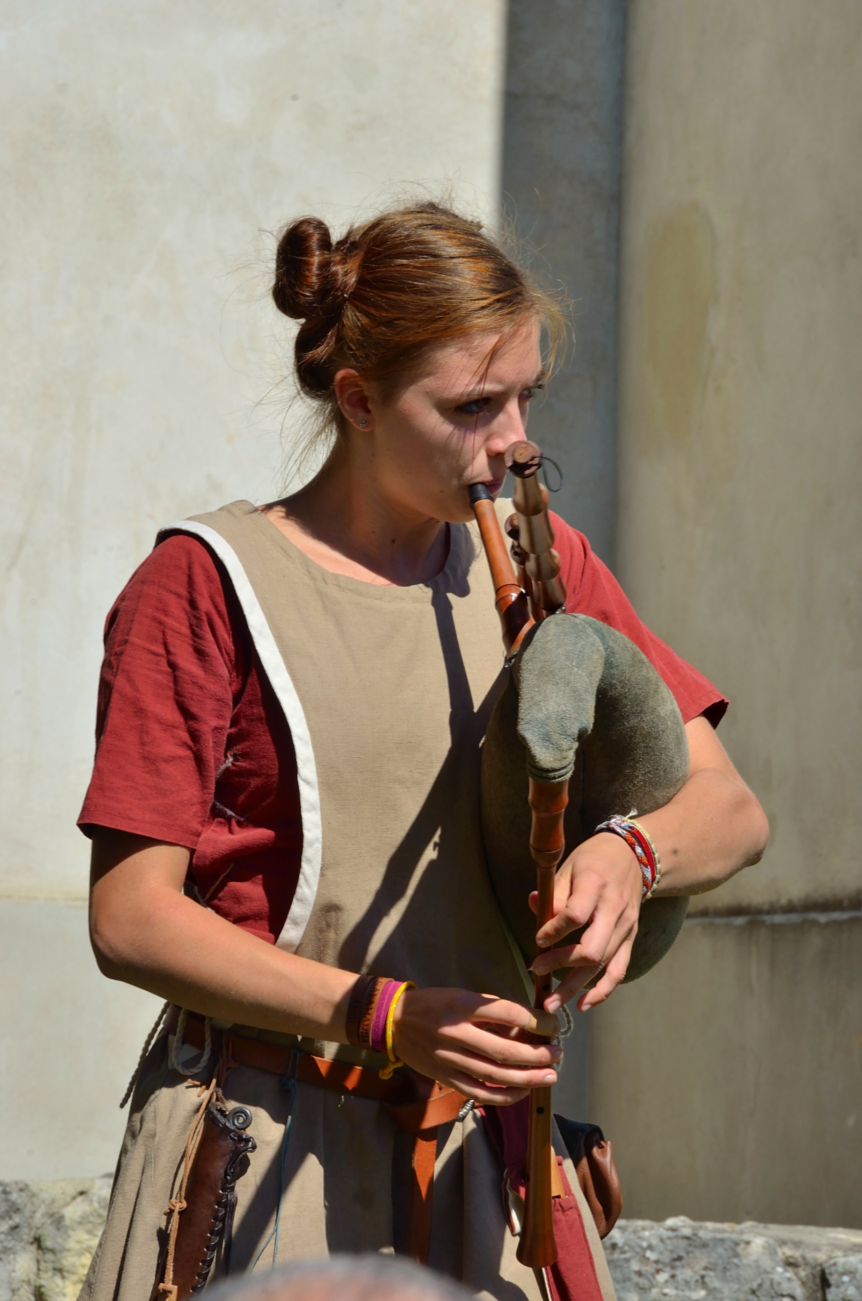 Medivial festival at Eggenburg, Lower Austria, 2013, September 7th-8th. Musica Salamanda: Angela